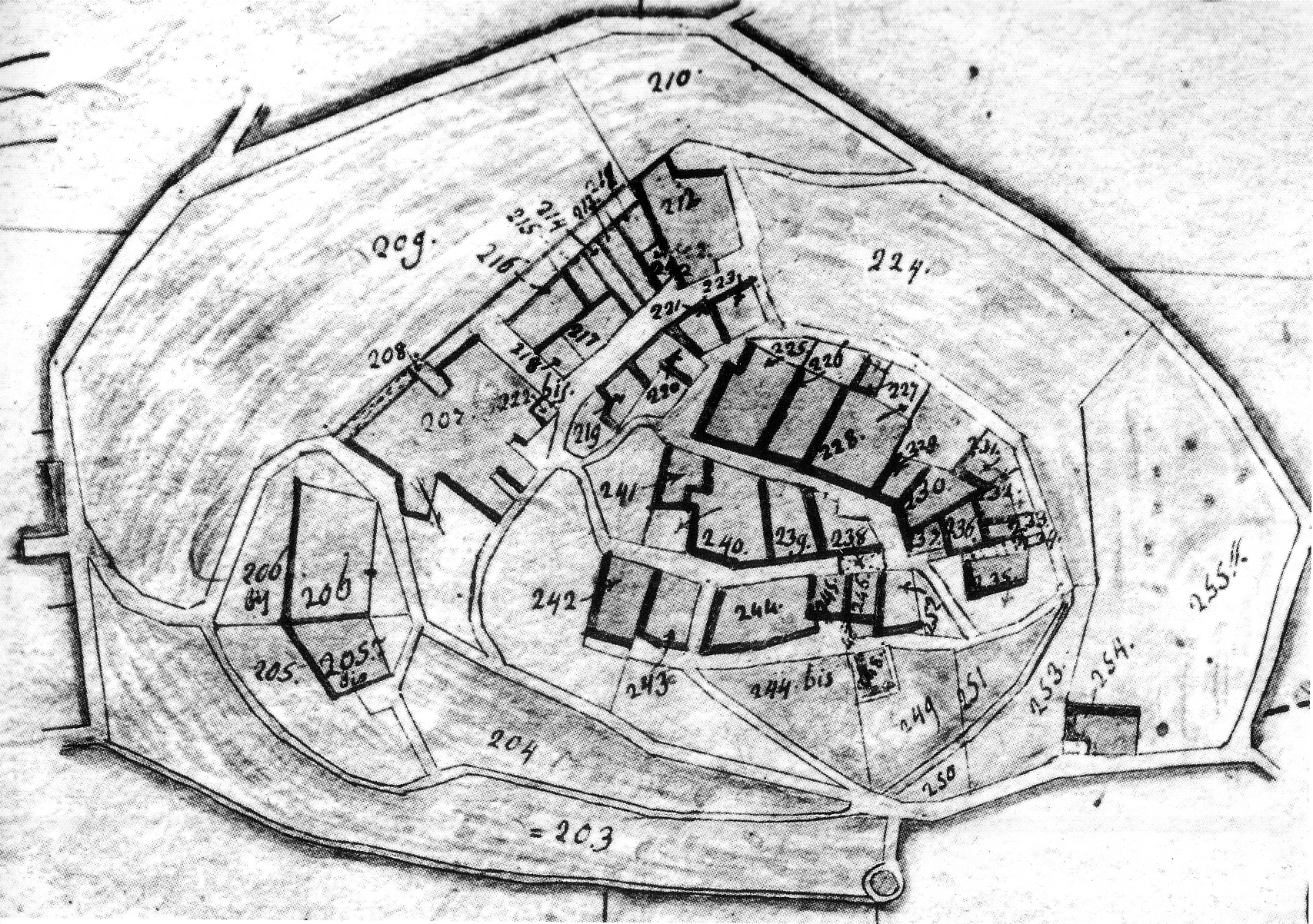 The map of Levane Alta in XIX century